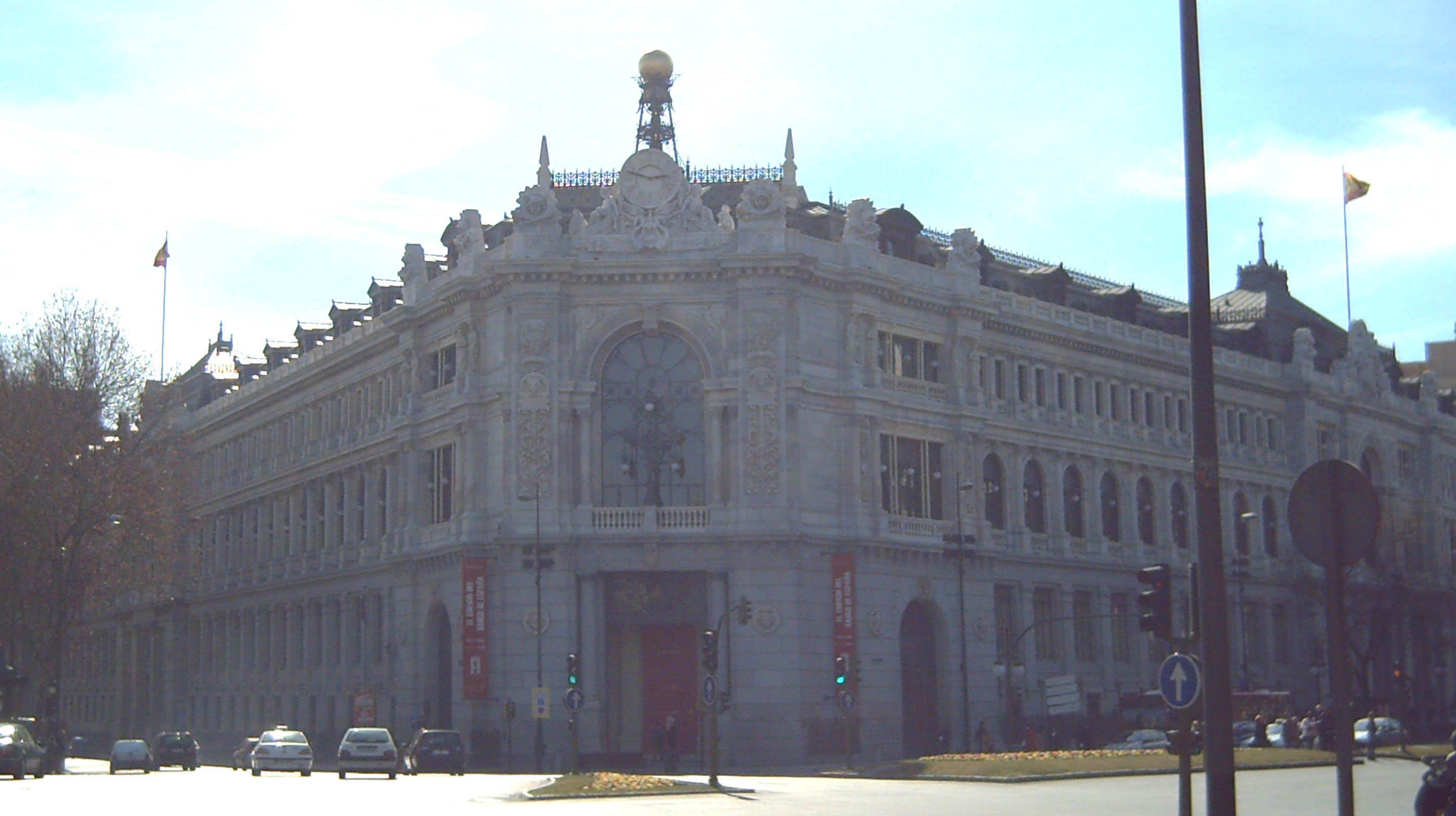 View of the Bank of Spain headquarters (Madrid) from Plaza de Cibeles (square). Built between 1884 and 1891; extensions in 1930–35, 1969–75 and 2003–06.